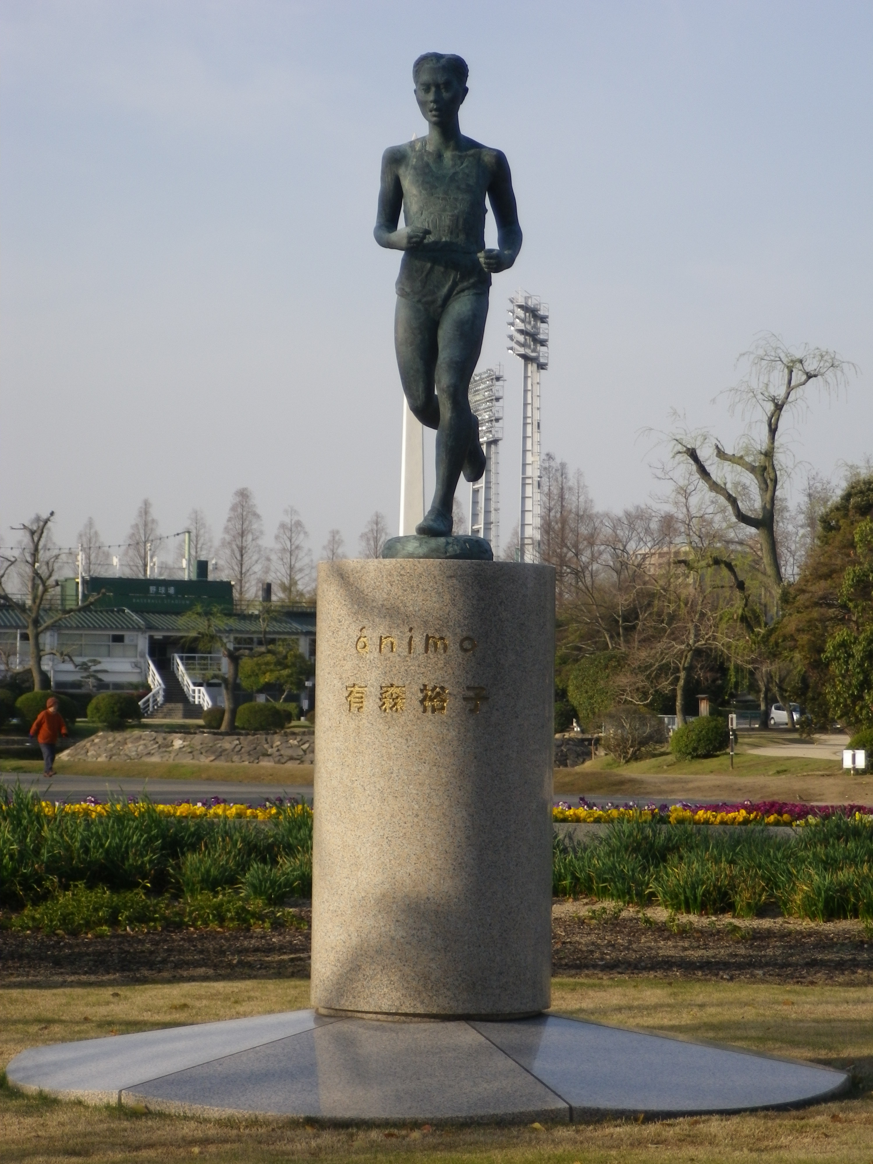 Bronze statue of Japanese marathon runner Yuko Arimori at Okayama Prefectural Multipurpose Ground